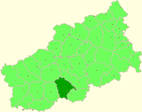 Tver Oblast map by Al Silonov